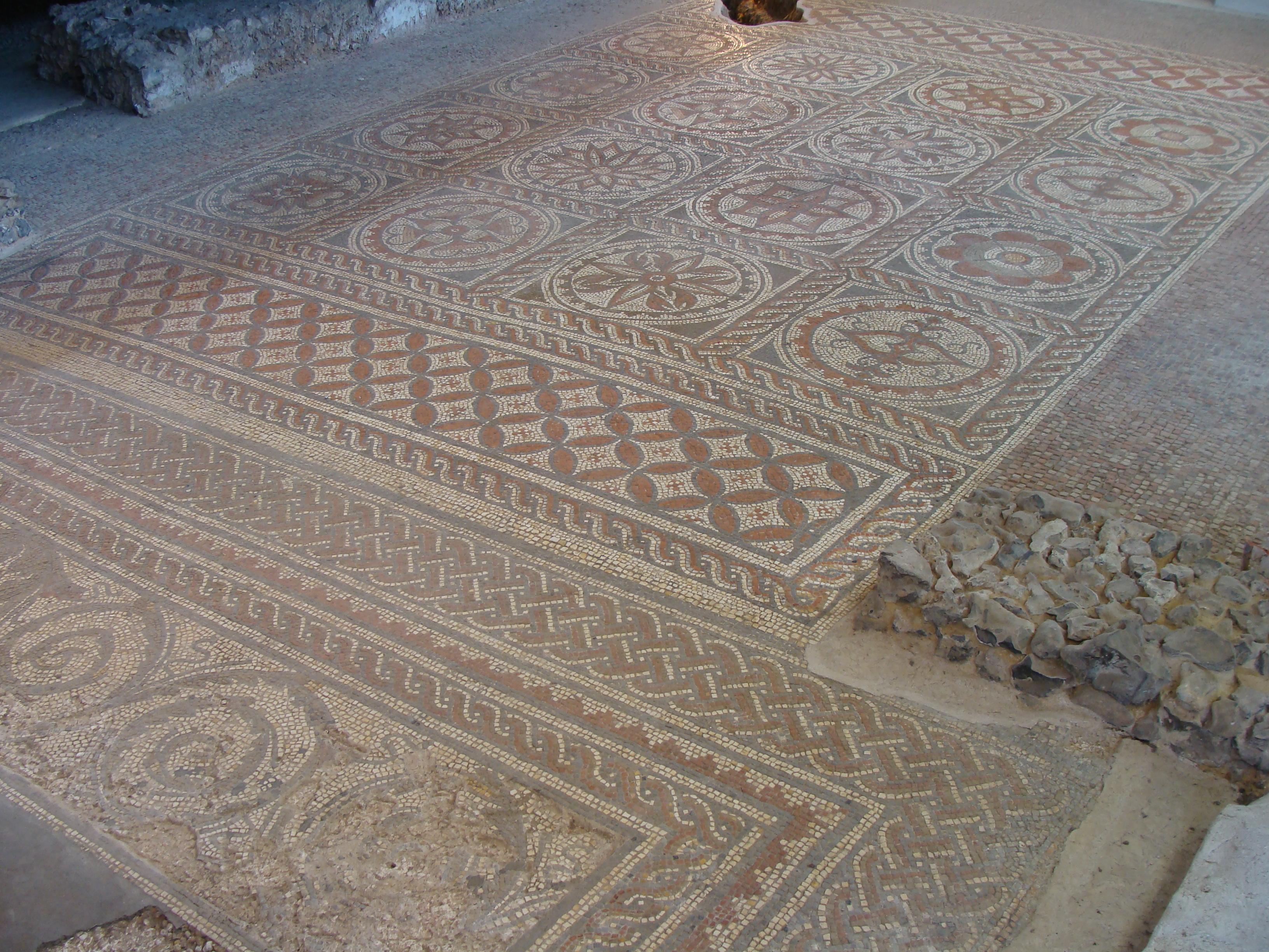 Roman mosaics, St Albans, Hertfordshire, UK